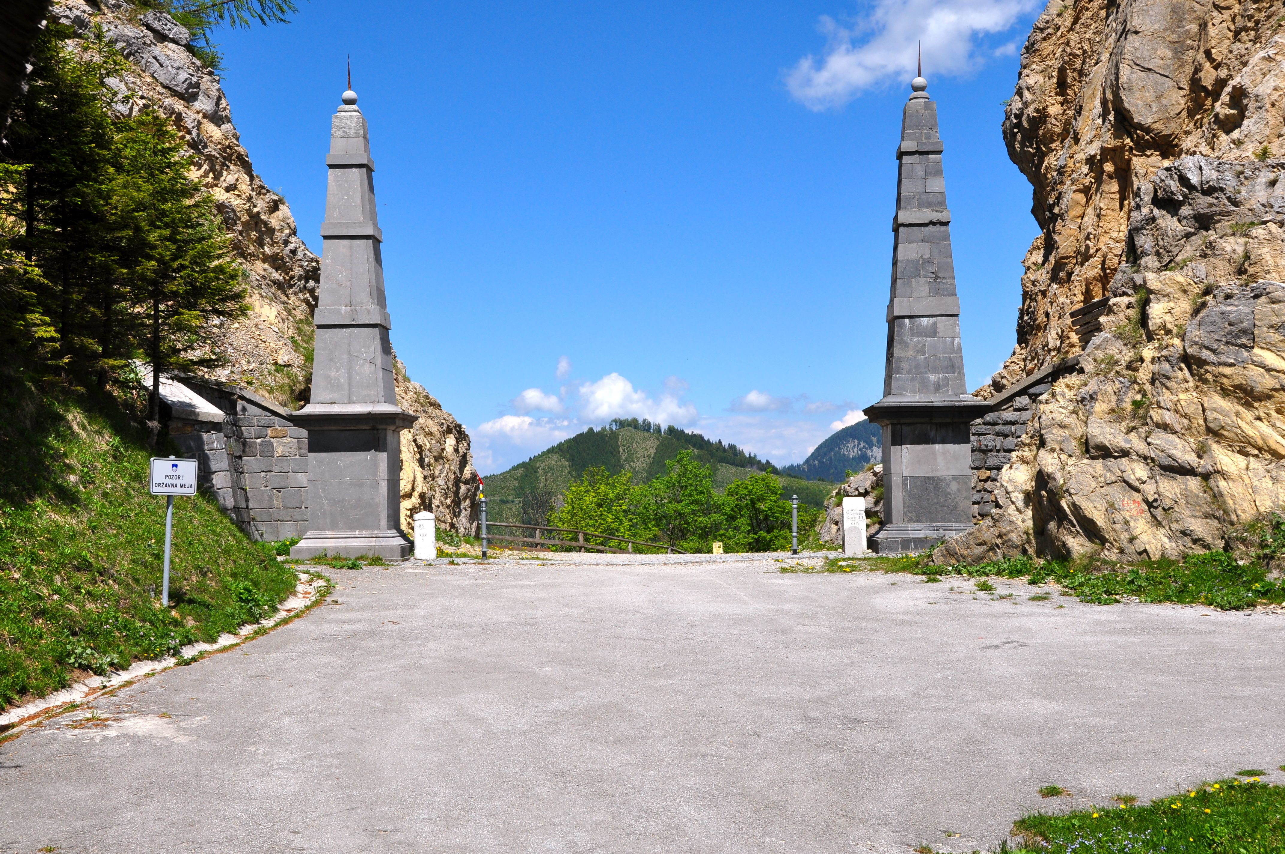 Mountain pass "Old Loibl" with obelisks marking the Austrian/Slovenian borderline, Loibltal, municipality Ferlach, district Klagenfurt Land, Carinthia, Austria